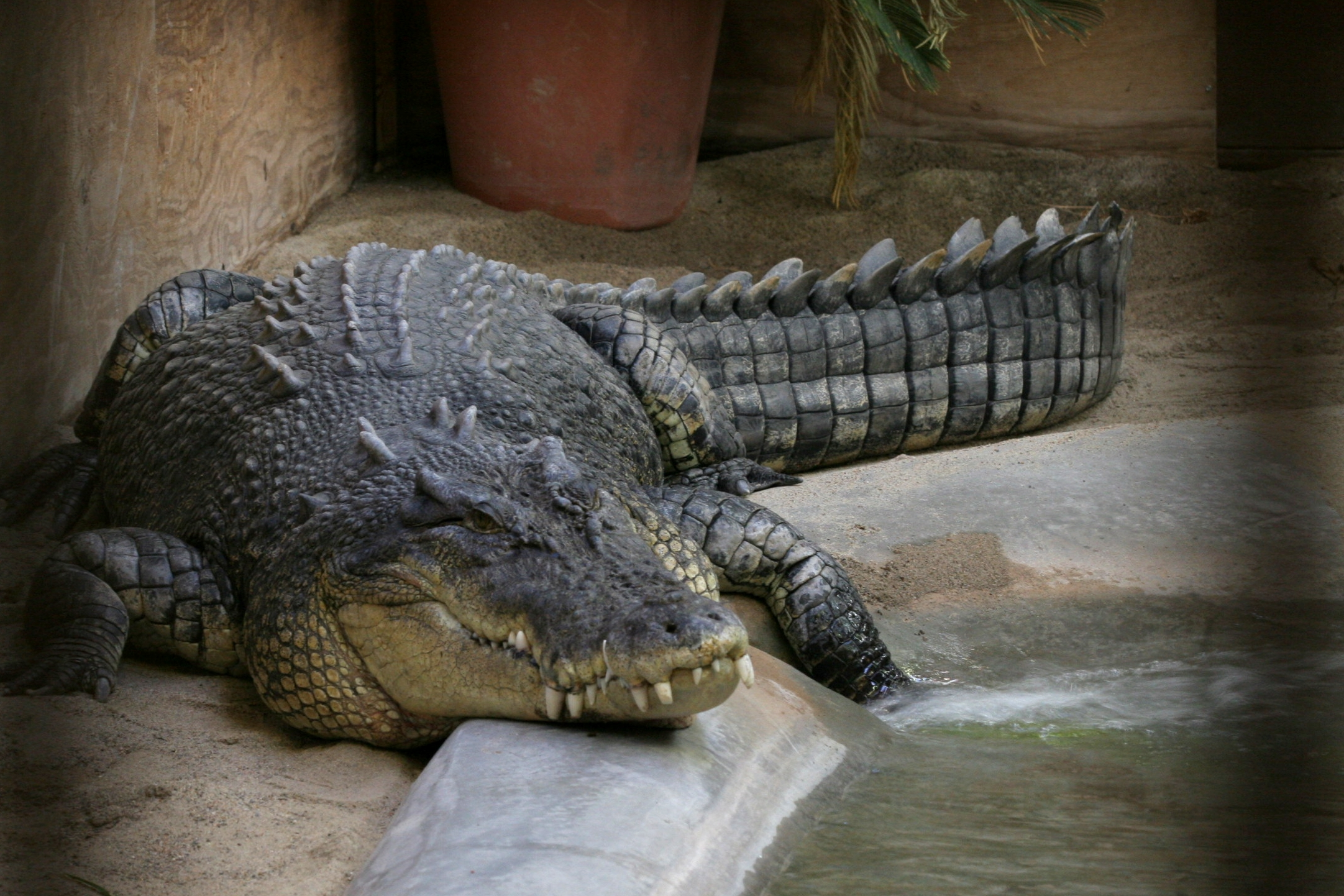 large crocodile in conservation park